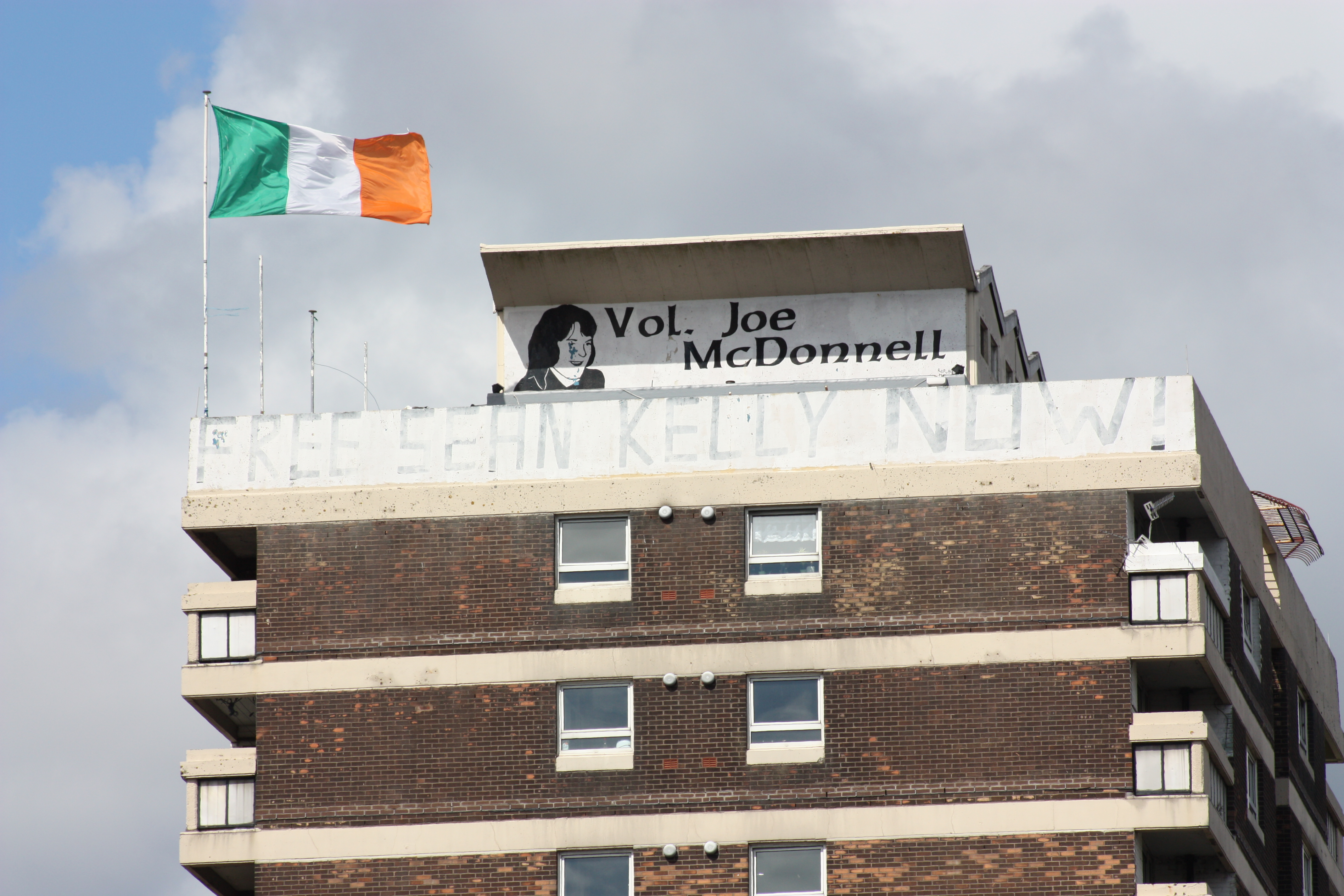 Artillery Flats, Belfast, Northern Ireland, July 2010 (viewed from Clifton House)